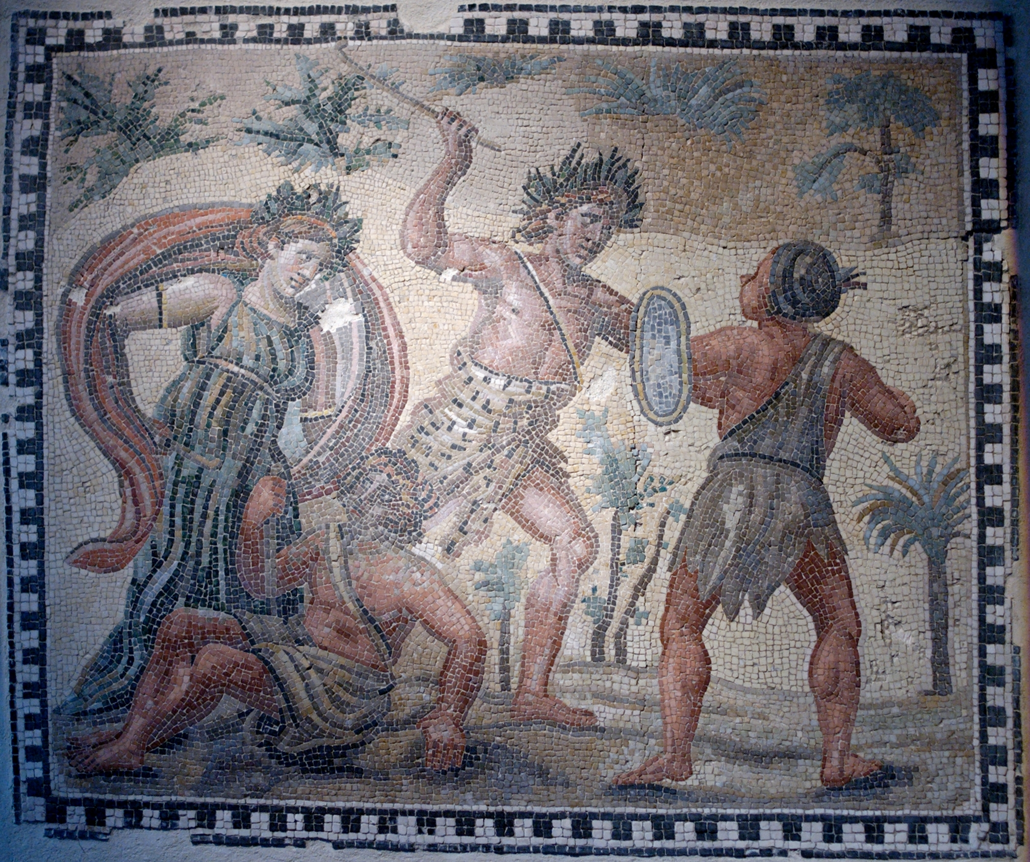 Pavement mosaic with the fight between Dionysos and the Indians. Roman artwork, first half of the 4th century CE. From the area of Villa Rufinella in Tusculum.